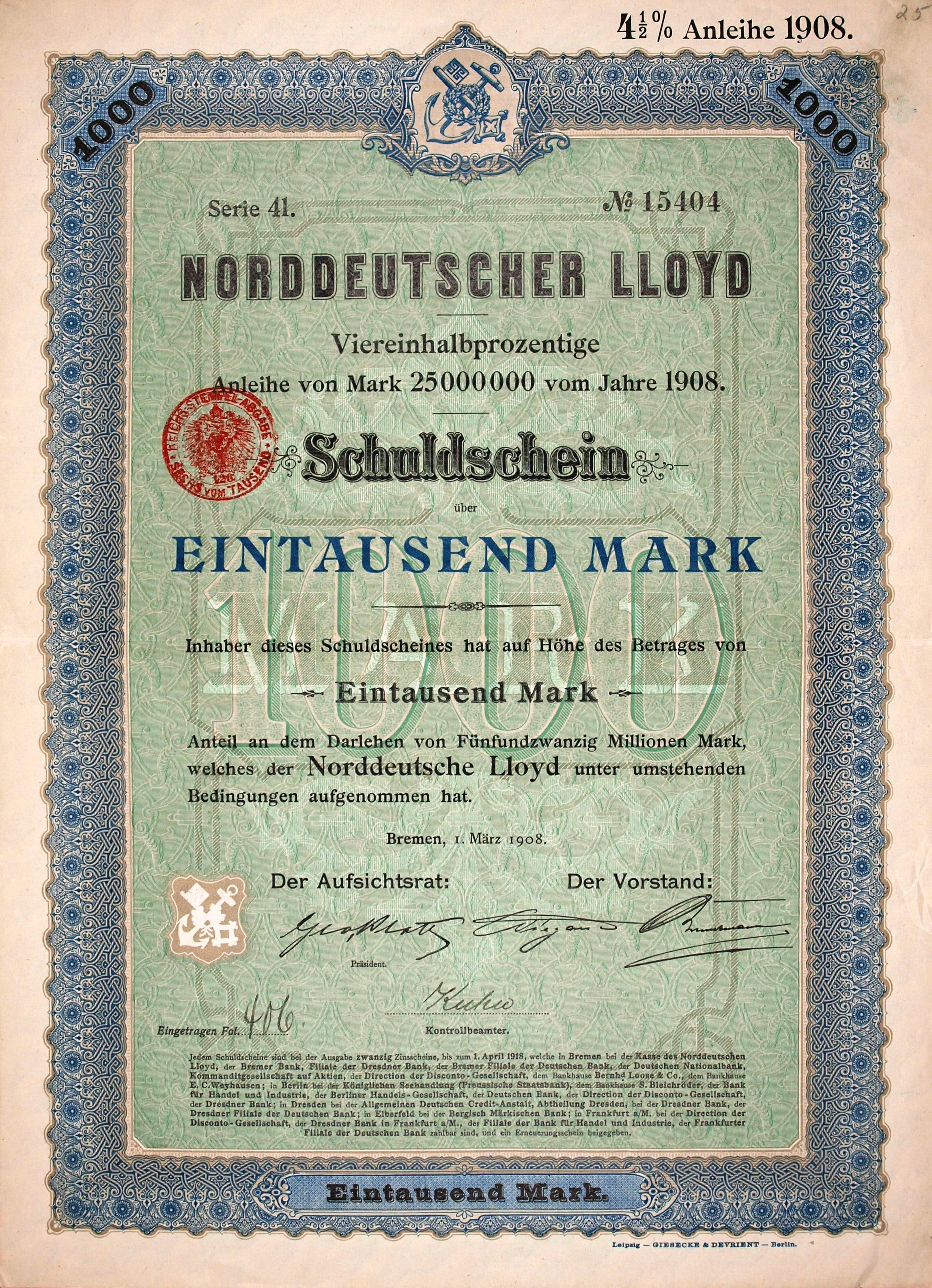 Bond of the Norddeutsche Lloyd, issued 1. March 1908